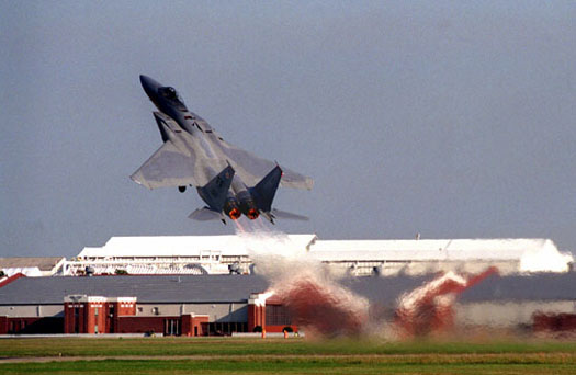 F-15 Eagle takeoff